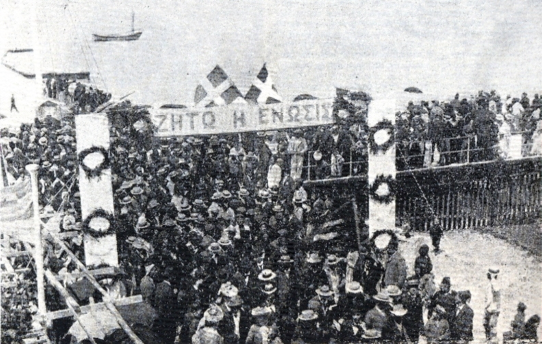 Demonstration in Cyprus during the 1930s, in favor of Enosis (Union) with Greece